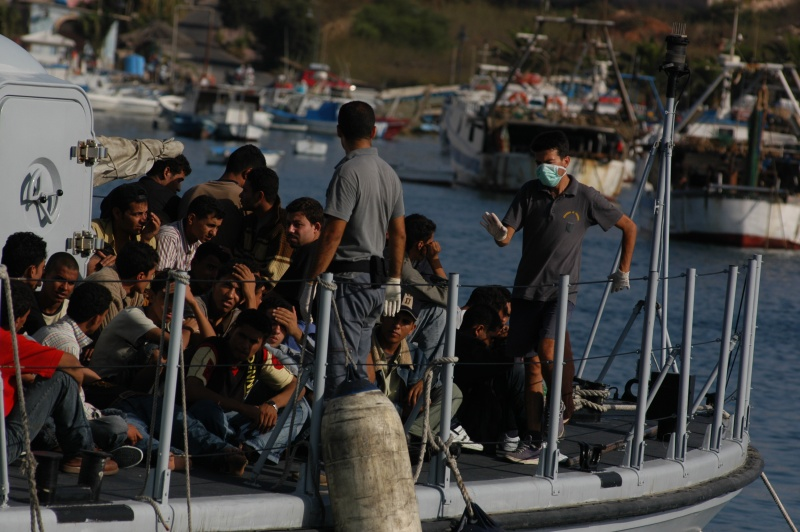 Migrants arriving on the Island of Lampedusa in August 2007